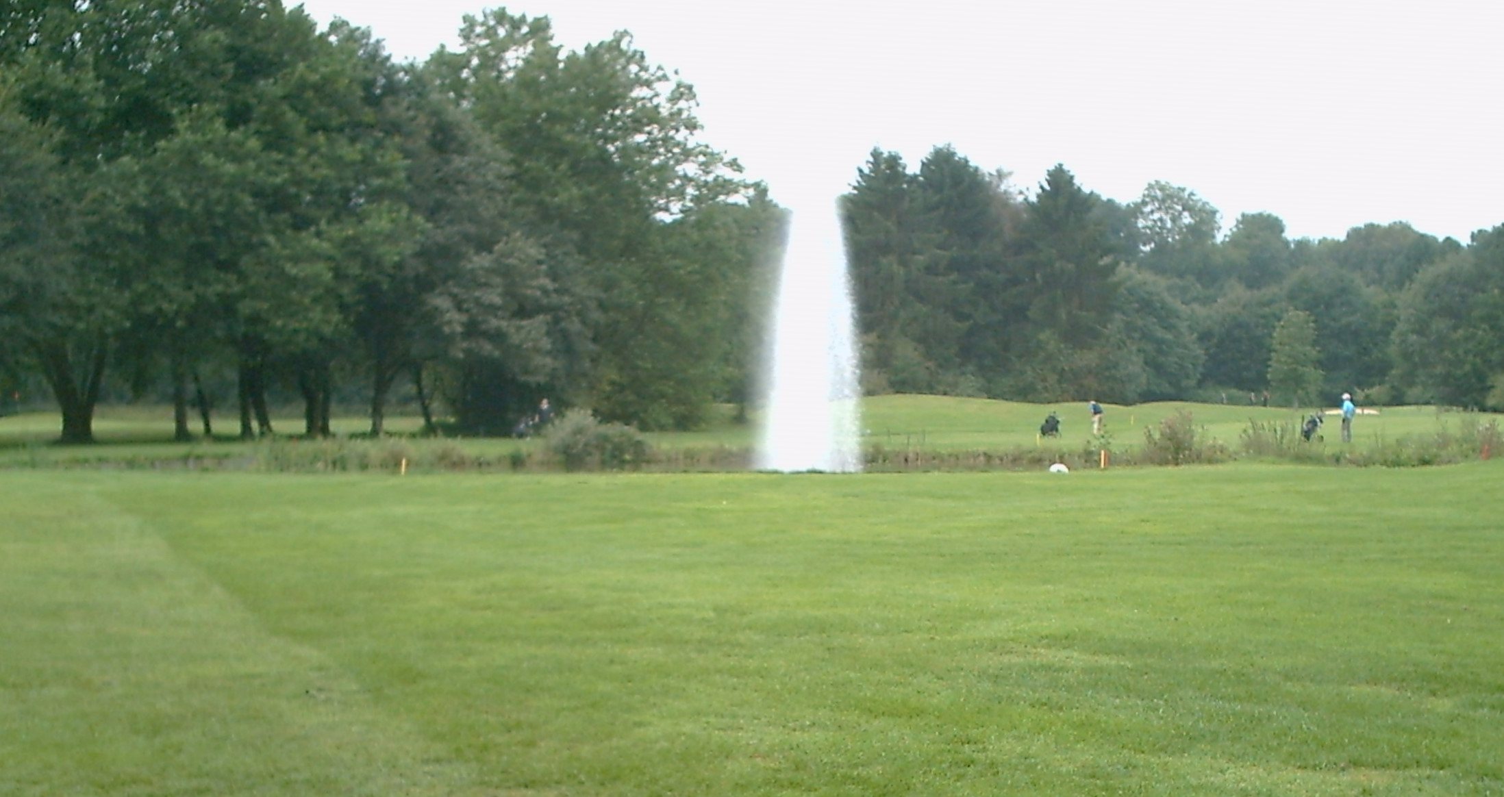 View from the club house terrace of the Golfclub Gütersloh in Rietberg, Germany